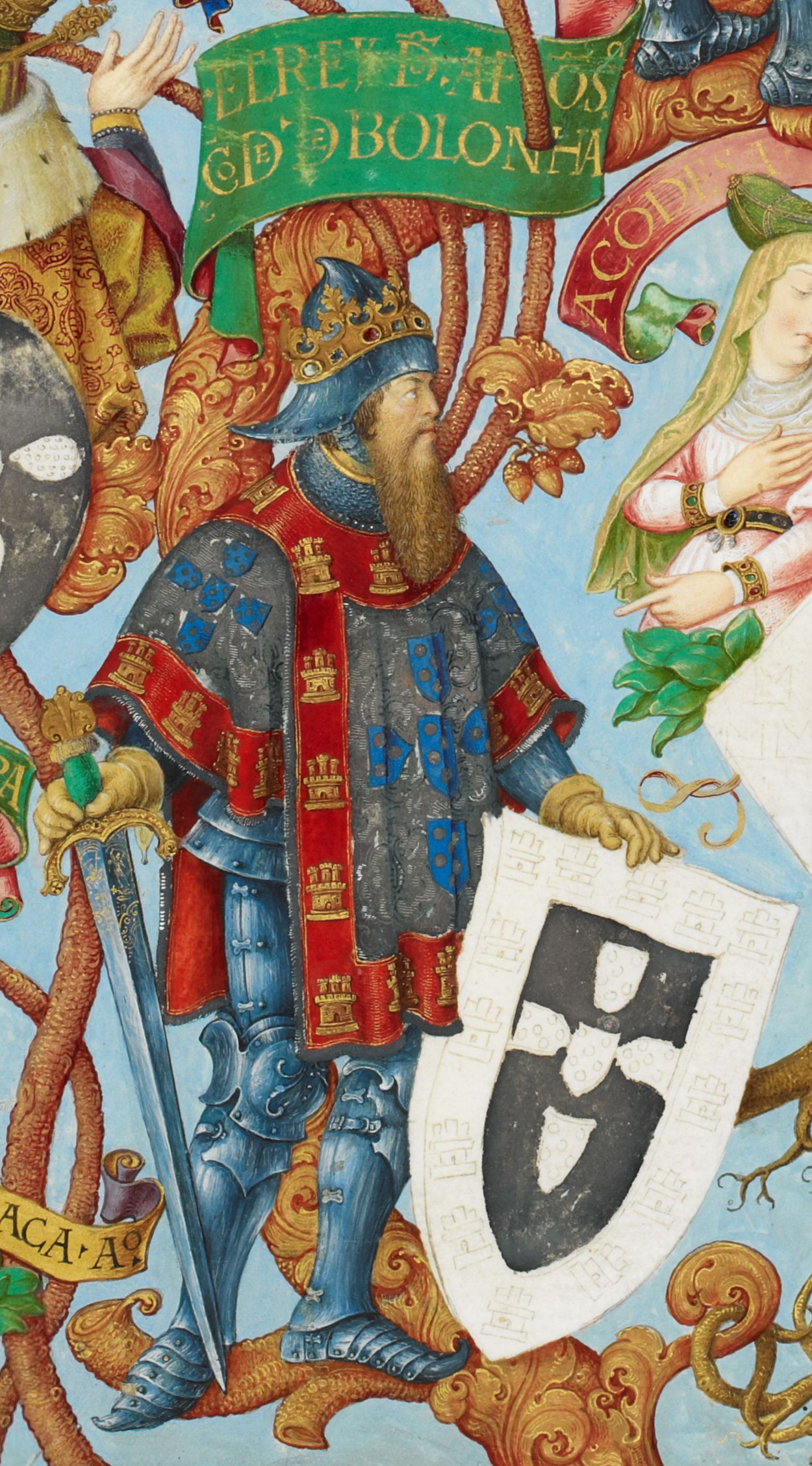 King Alfonso III of Portugal (1210-1279), in a 16th-century miniature.